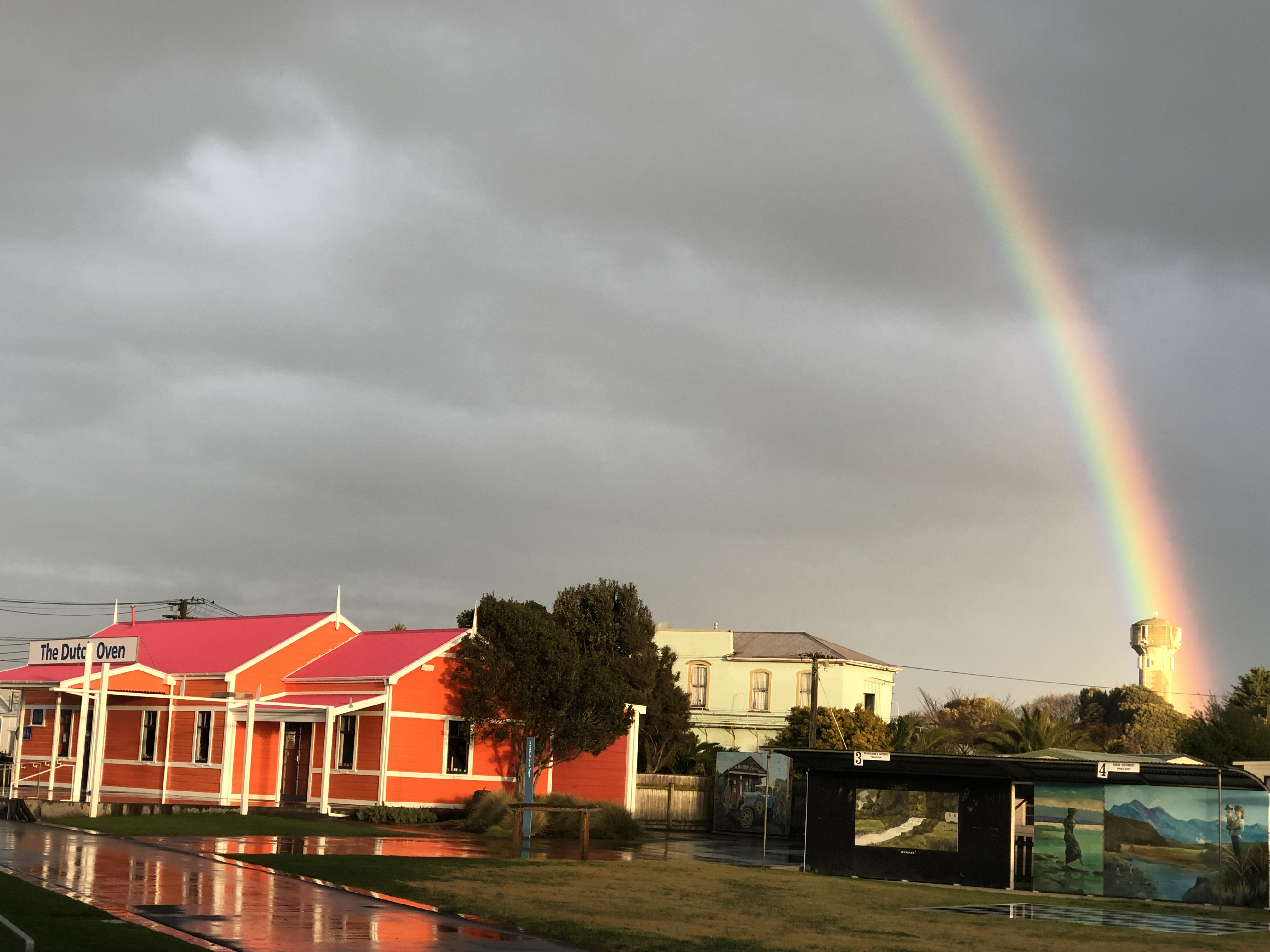 Magic over Foxton